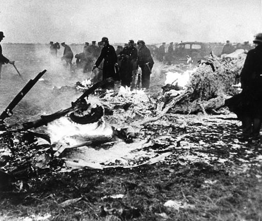 Prince Gustaf Adolf died in the plane crash at Kastrup airport in Copenhagen in 1947.